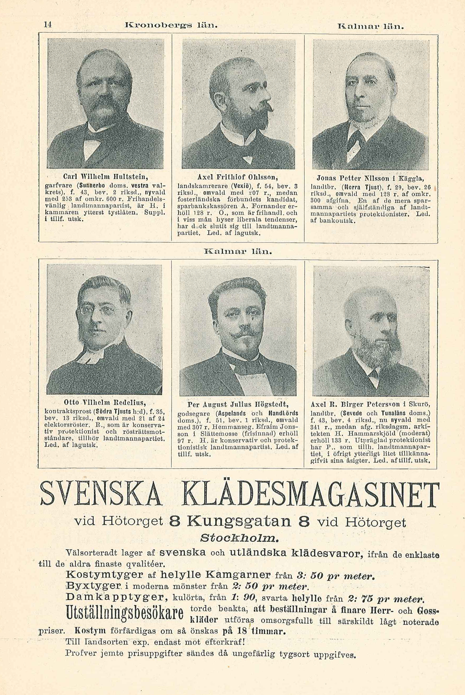 Page 14 of an album featuring portraits of all the members of the second chamber of the Swedish parliament (Sveriges riksdag) elected in 1897. This page featuring parts of the members representing the counties of Kronoberg and Kalmar.